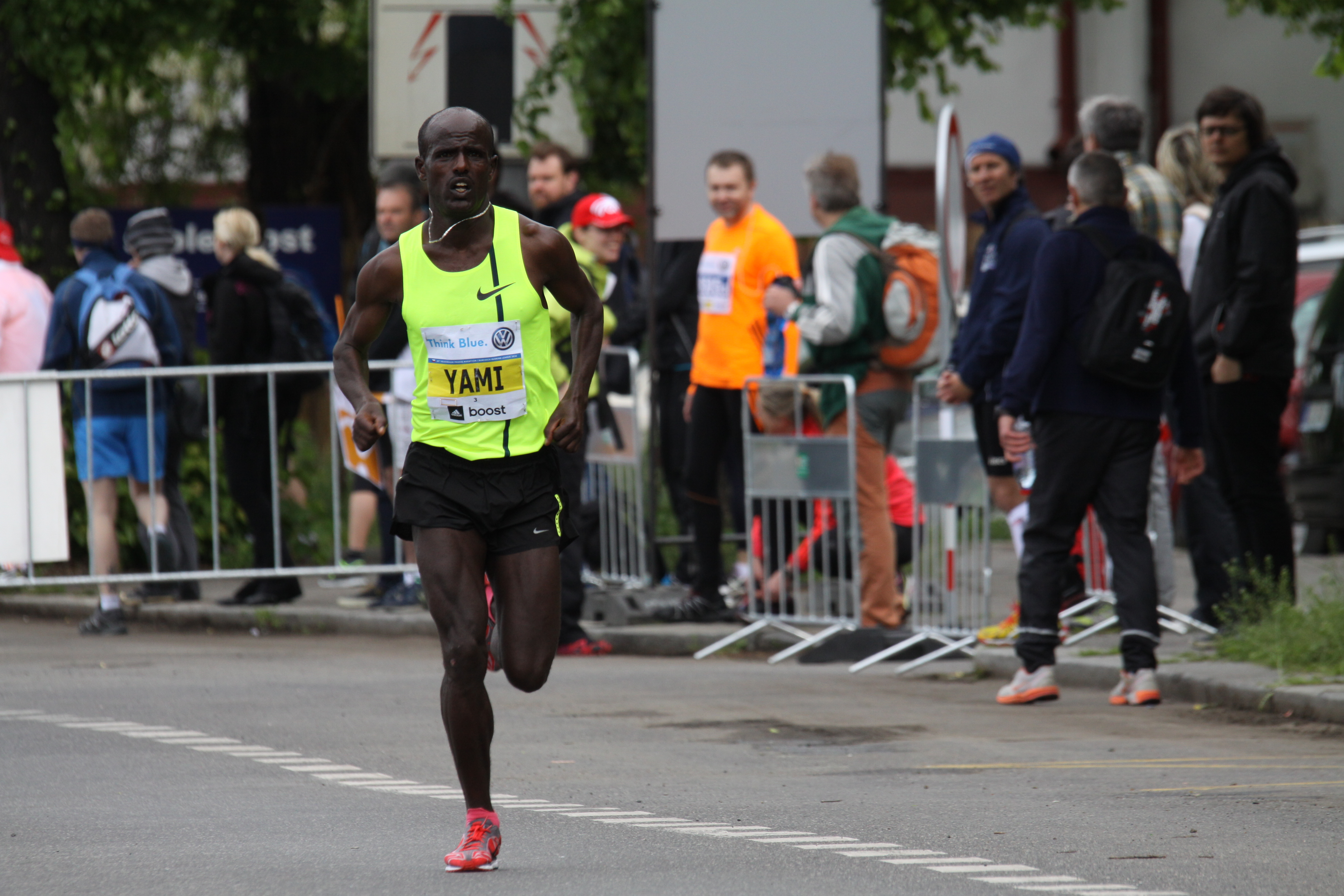 Dadi Yami. Prague International Marathon in 2014, Czech Republic